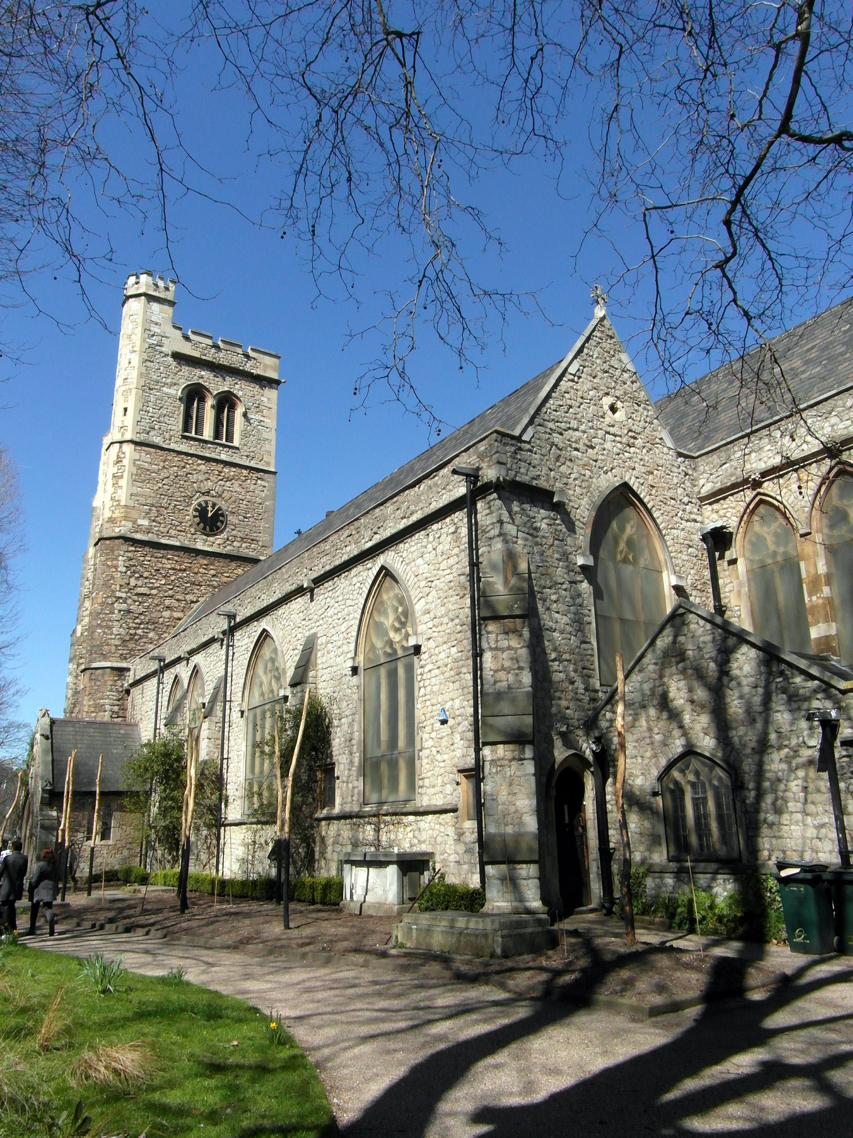 Albert Embankment, Lambeth, London. The former parish church of Lambeth. Dating from the 1370s with major restoration in 1851-2 by P C Hardwick which removed many early c.16th century alterations. Disused as a church since 1972, since 1979 it has been used by the Museum of Garden History.